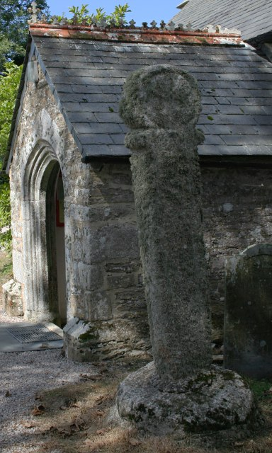 Celtic Cross in St Allen Churchyard. Situated by the south porch, this is one of four old crosses in the churchyard. It is believed that this was a holy site in celtic times on which the church was built in the 12th century.